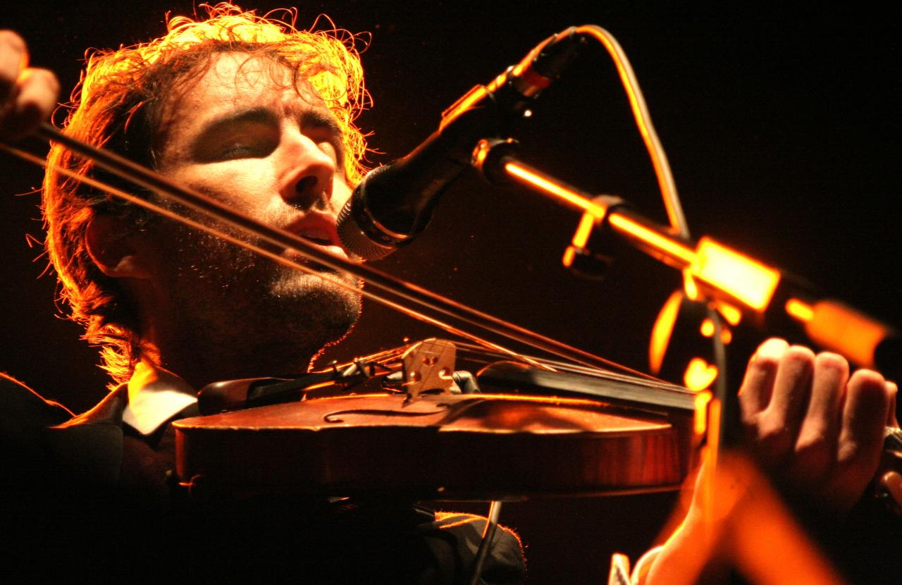 Andrew Bird with violin in concert